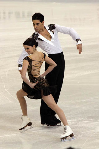 Anna CAPPELLINI and Luca LANOTTE at the 2009 World Figure Skating Championships. Compulsory dance - Paso Doble